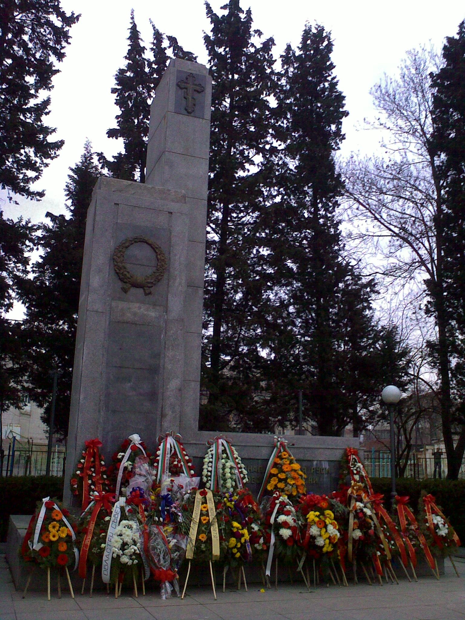 Burgas: Monument